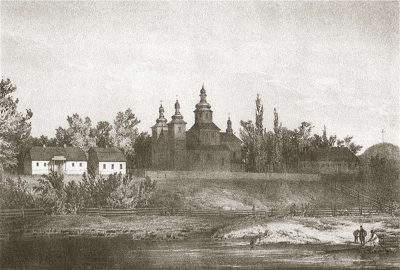 Monastary where presumably lived Vaišvilkas, Grand Duke of Lithuania